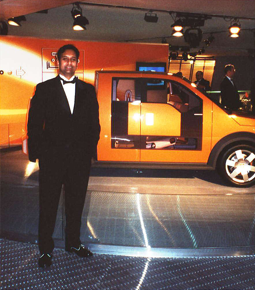 Sid Ramnarace - Ford 24.7 Concept